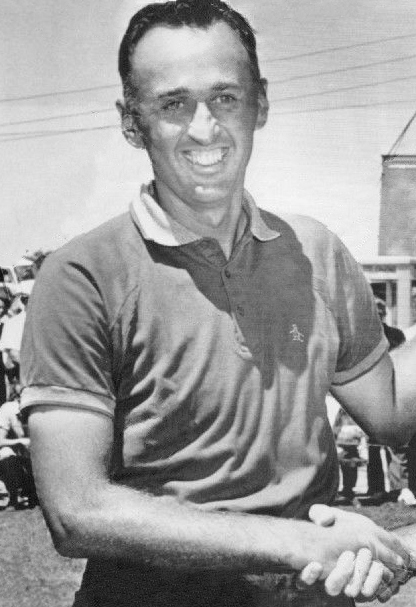 1959 MI Buick Open Golf Tournament had Art Wall & Dow Finsterwald Press Photo